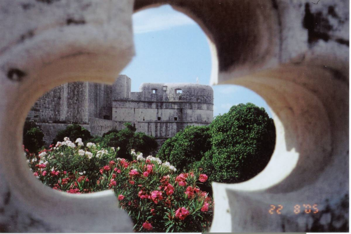 Bokar Fortress, in Dubrovnik.